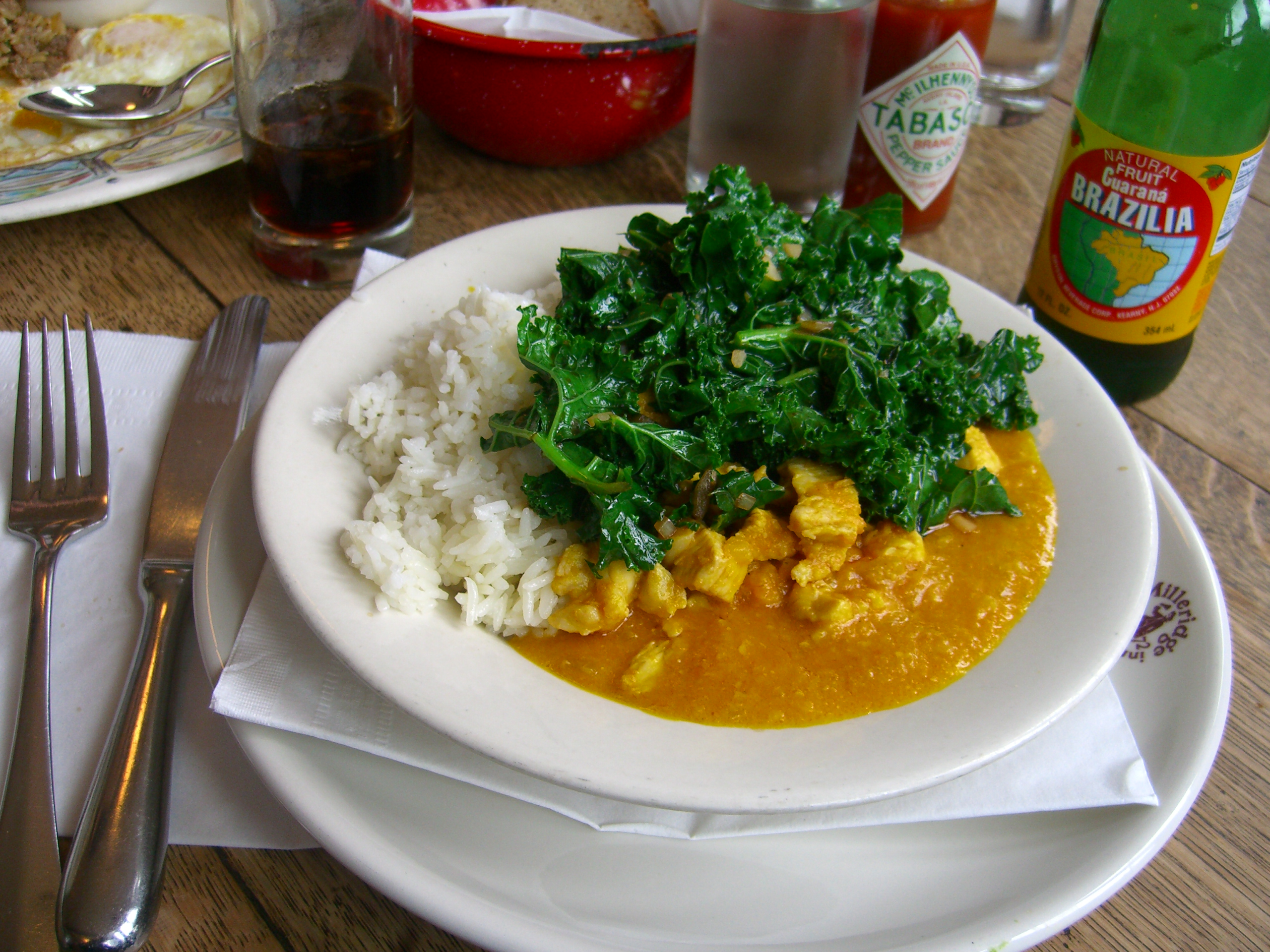 Chicken ximxim